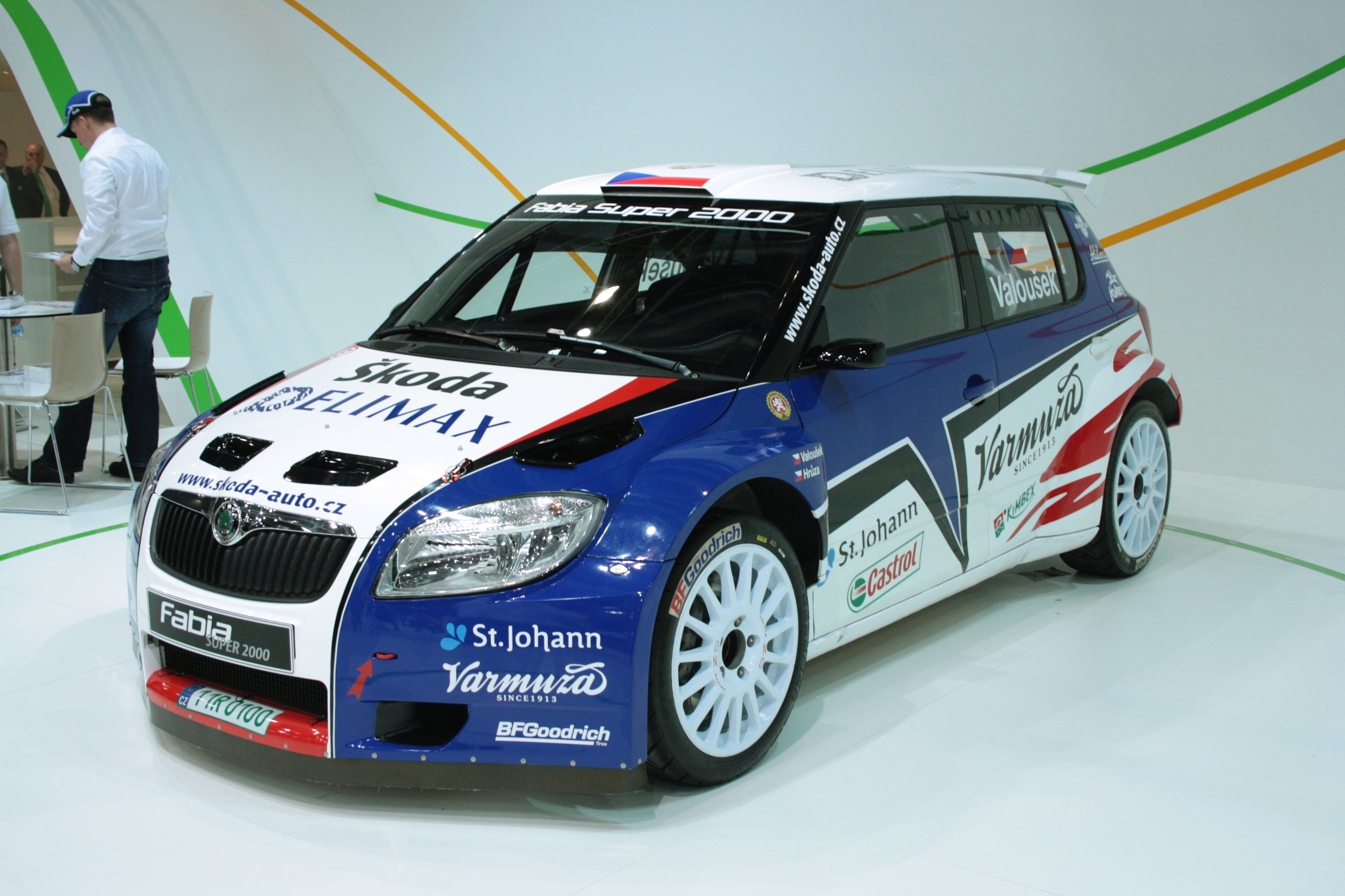 Racing version of Škoda Fabia - Fabia 2000 on display at Autotec 2010 bus, car and truck fair in Brno, CZ This photograph was taken with a DSLR from WMCZ's Camera grant.